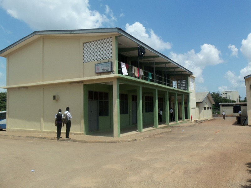 KASS Aglionby House